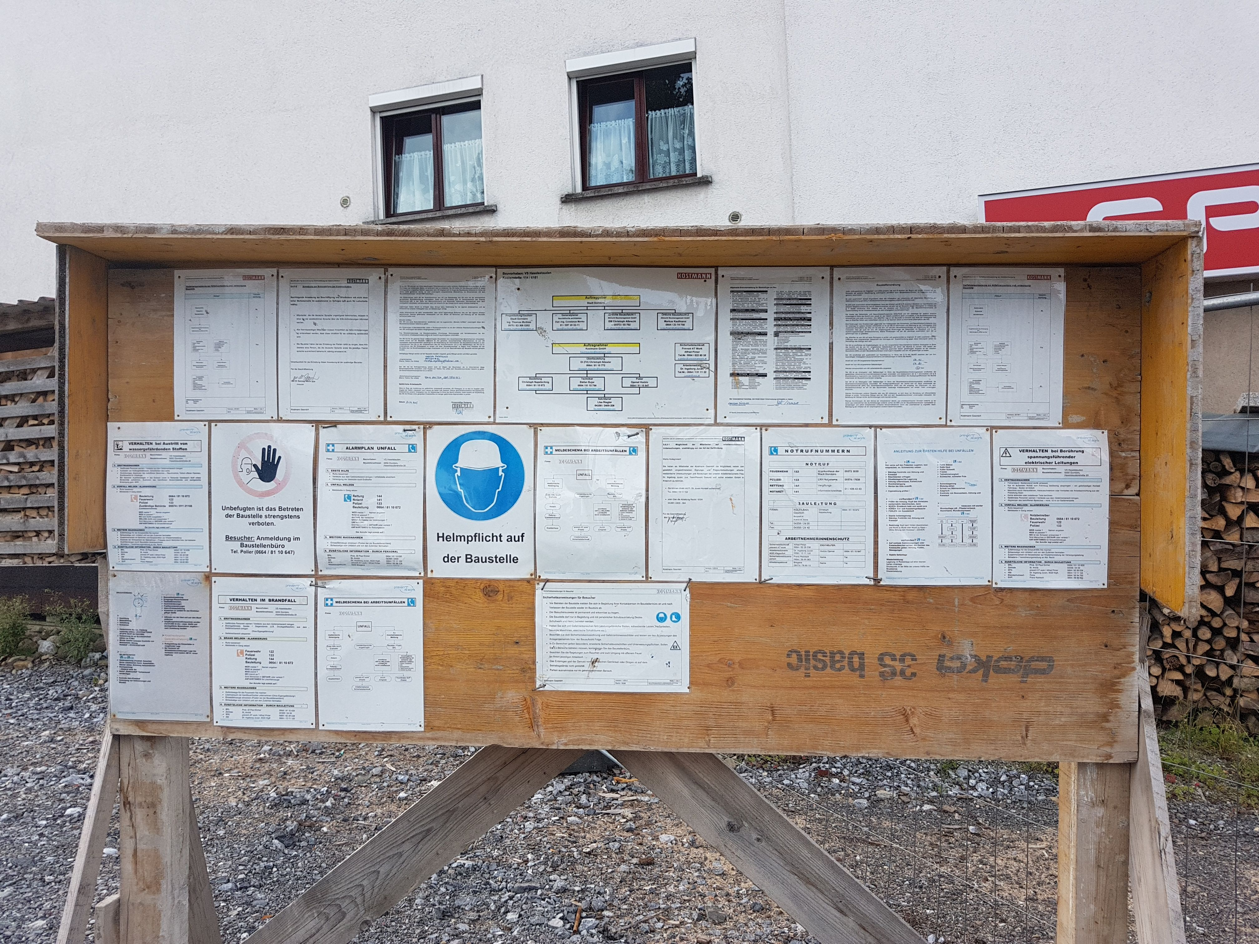 Information board construction site safety. Occupational health and safety at construction sites in the European Union must be taken into account in planning and made accessible. If several employers are working on the construction site, a coordinator must be appointed who, among other things, is responsible for the safety.